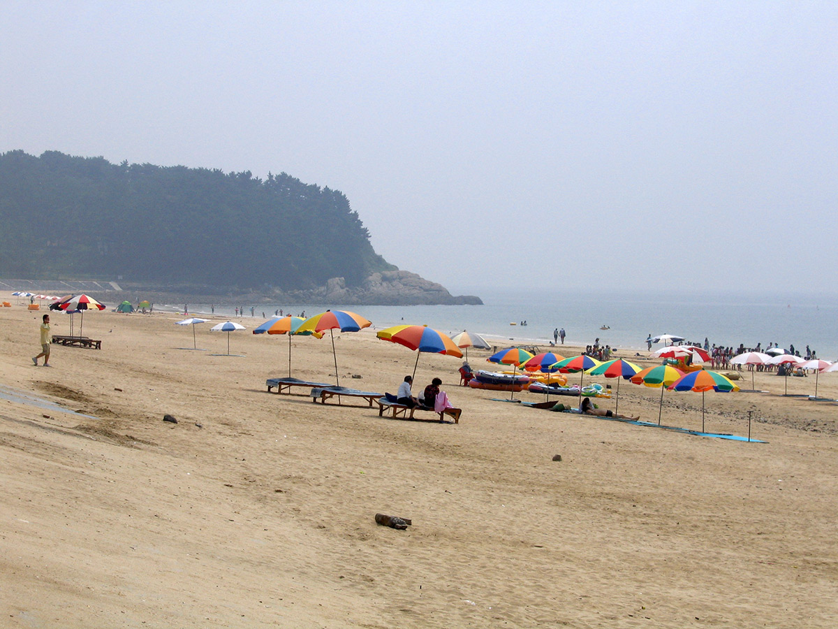 Daecheon Beach looking south, Korea